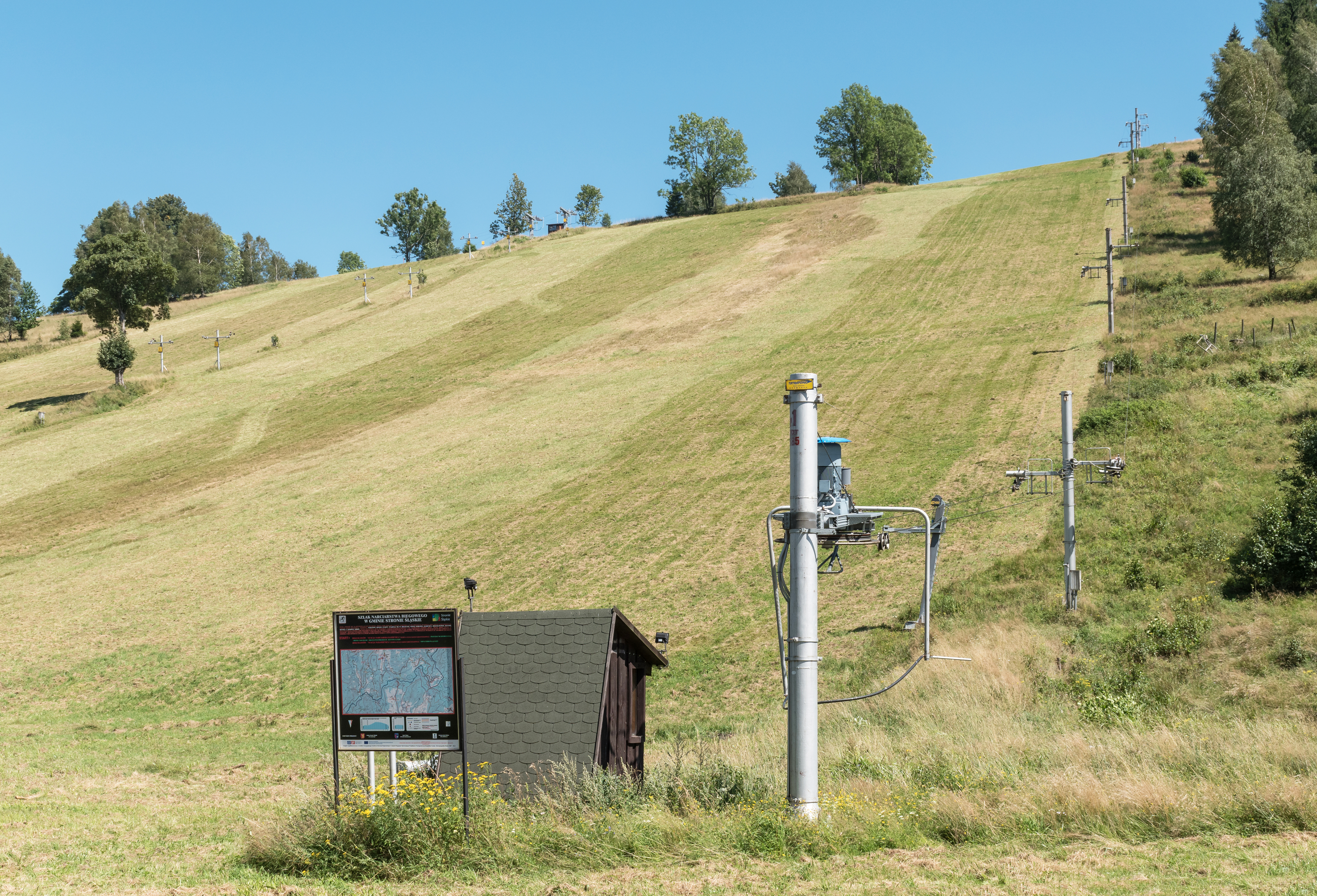 Ski lift in Kamienica